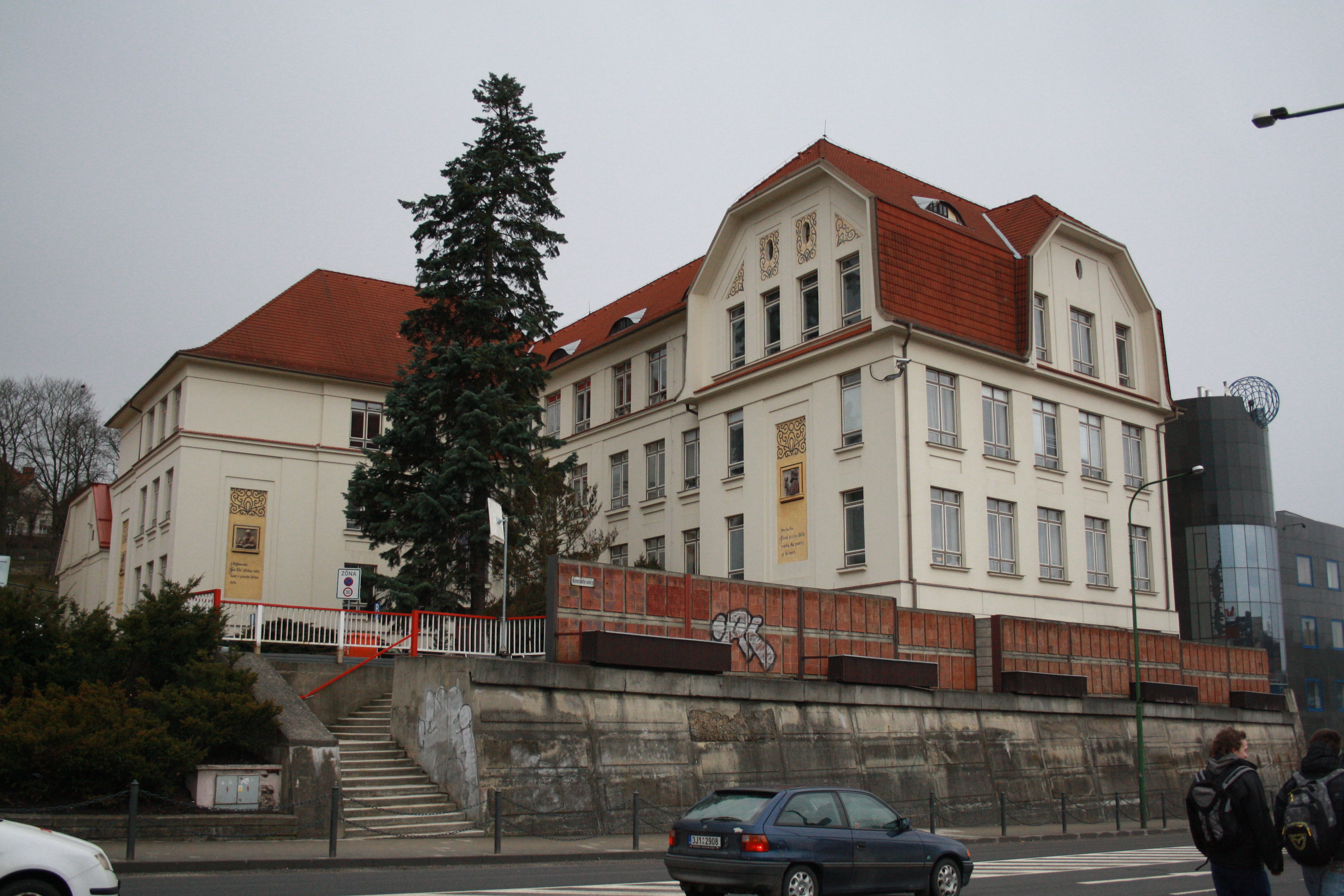 Building of ZŠ TGM in Třebíč.